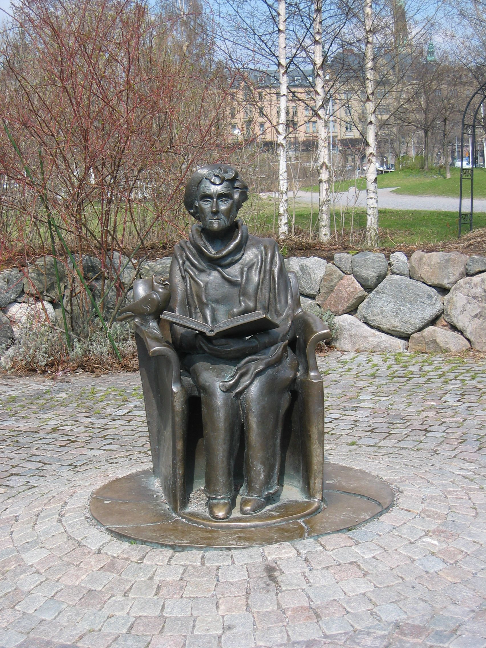 Statue of Astrid Lindgren by Hertha Hillfon (1921–), erected in 1996 outside Junibacken on Djurgården in Stockholm